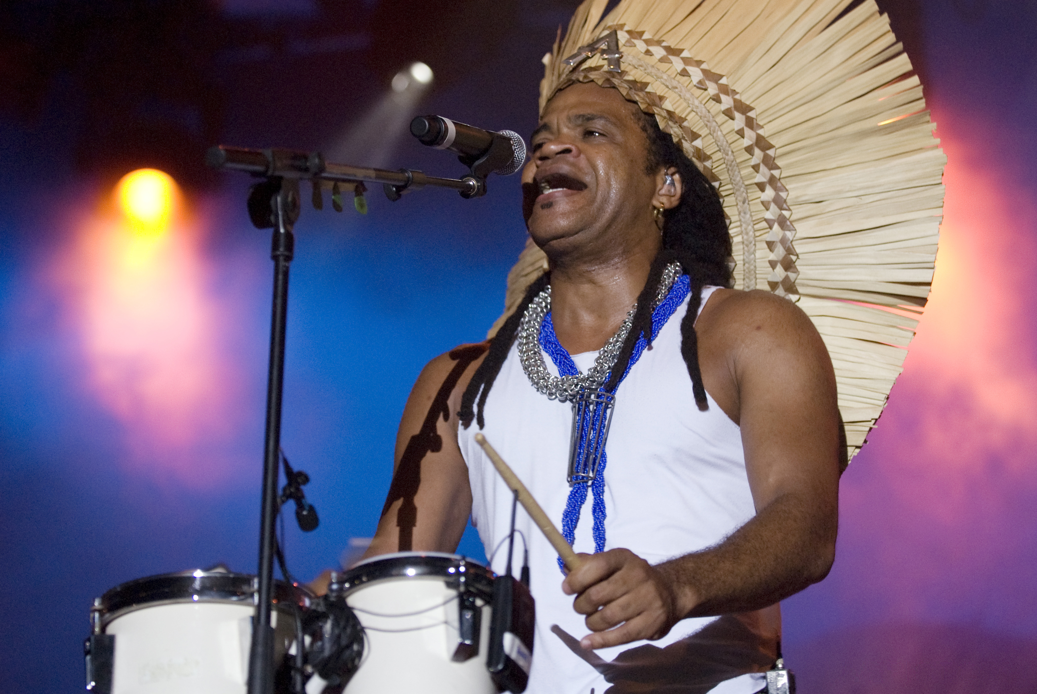 Carlinhos Brown